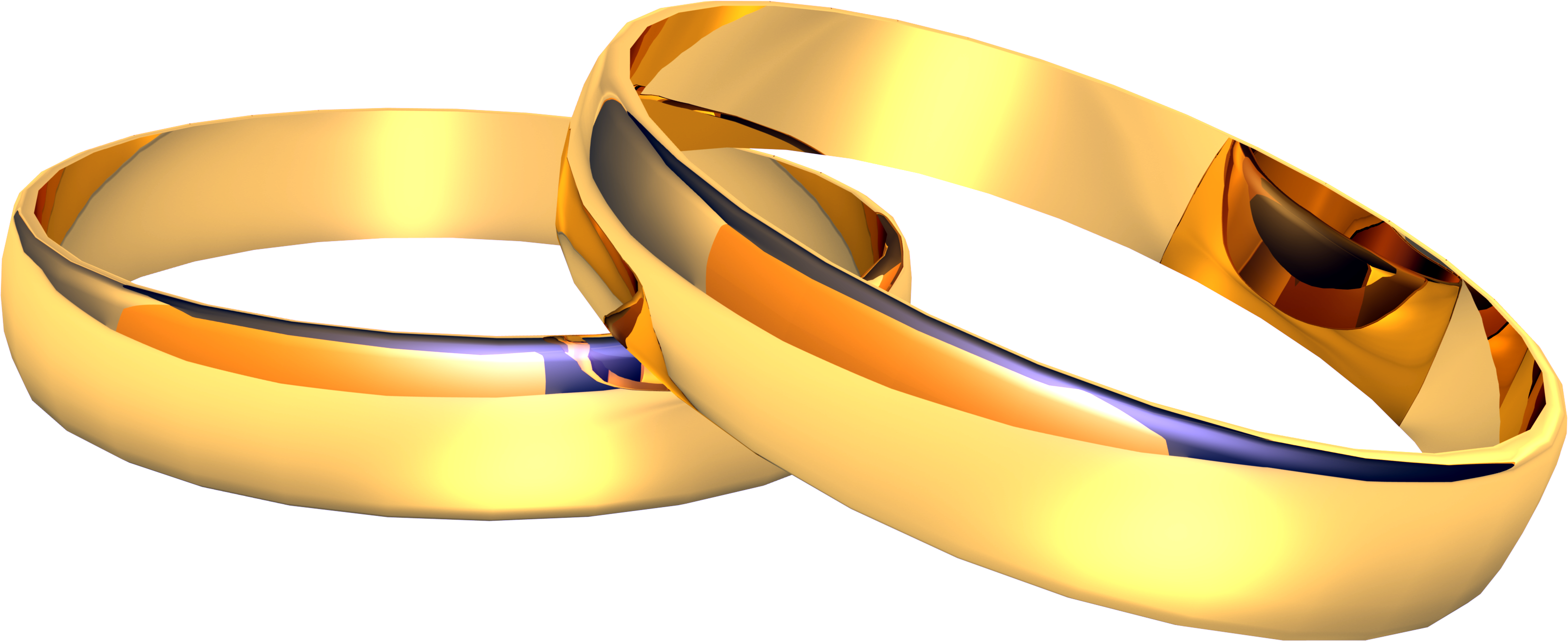 Wedding rings